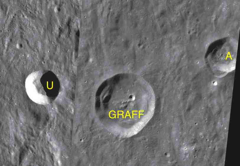 Part of the chart LAC-123 used for the presentation